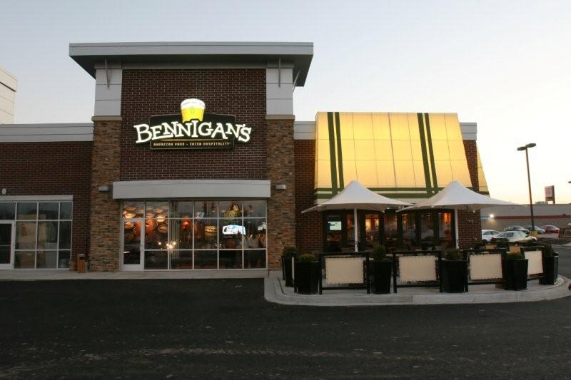 Bennigan's New Prototype - Bennigan's Appleton, Wisconsin